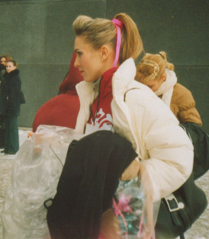 Irina Lobacheva at the Grand Prix Final 2003/04